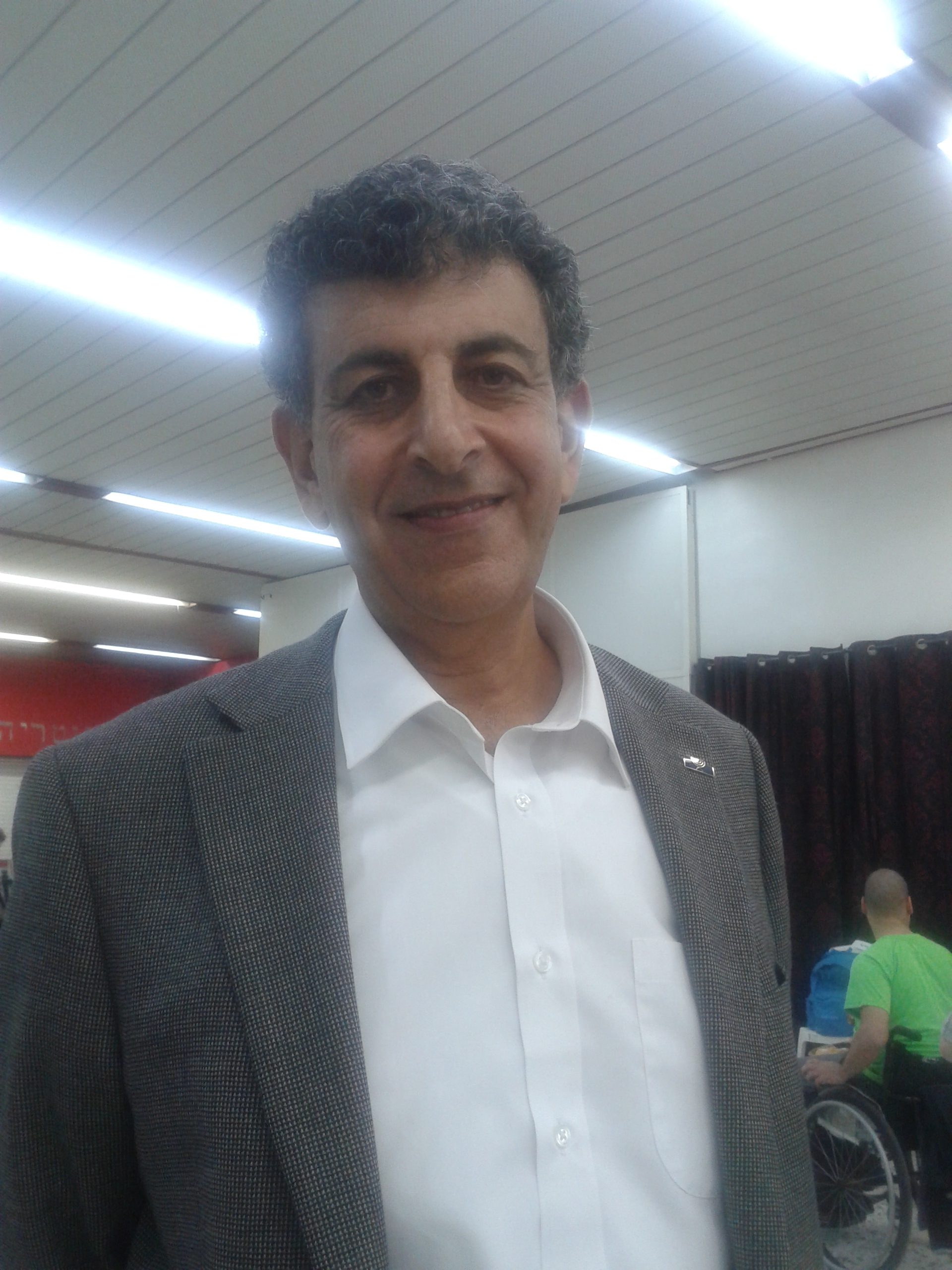 Ehud Ratzabi